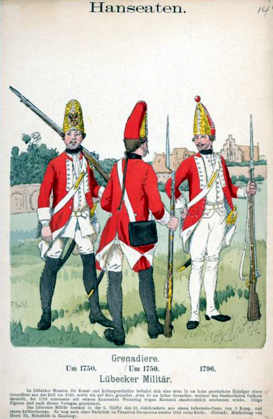 Grenadiers of Lübeck's military, 1750 and 1796